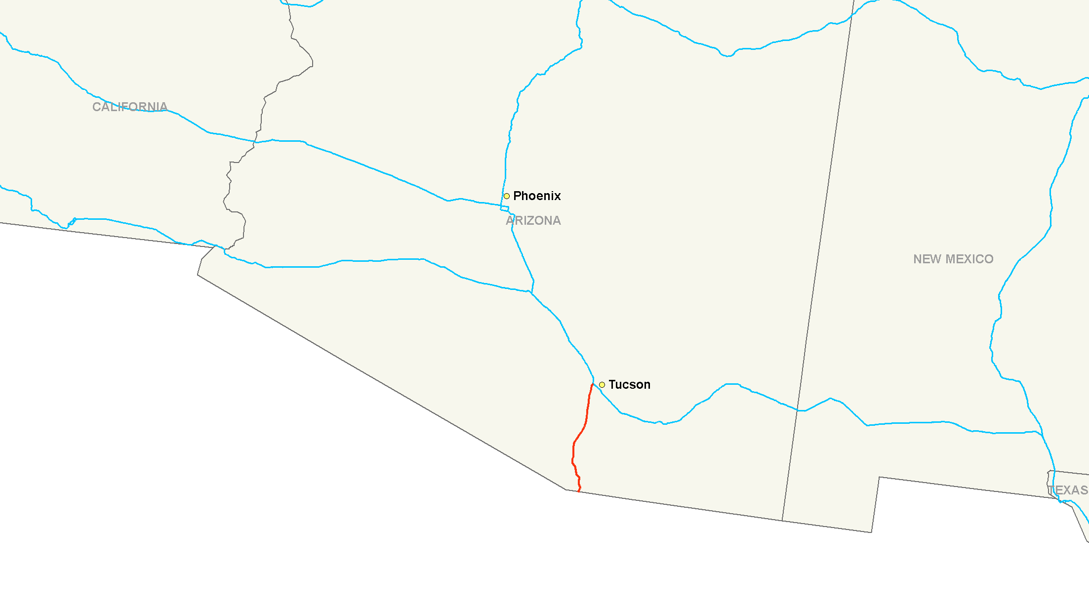 Map of Interstate 19